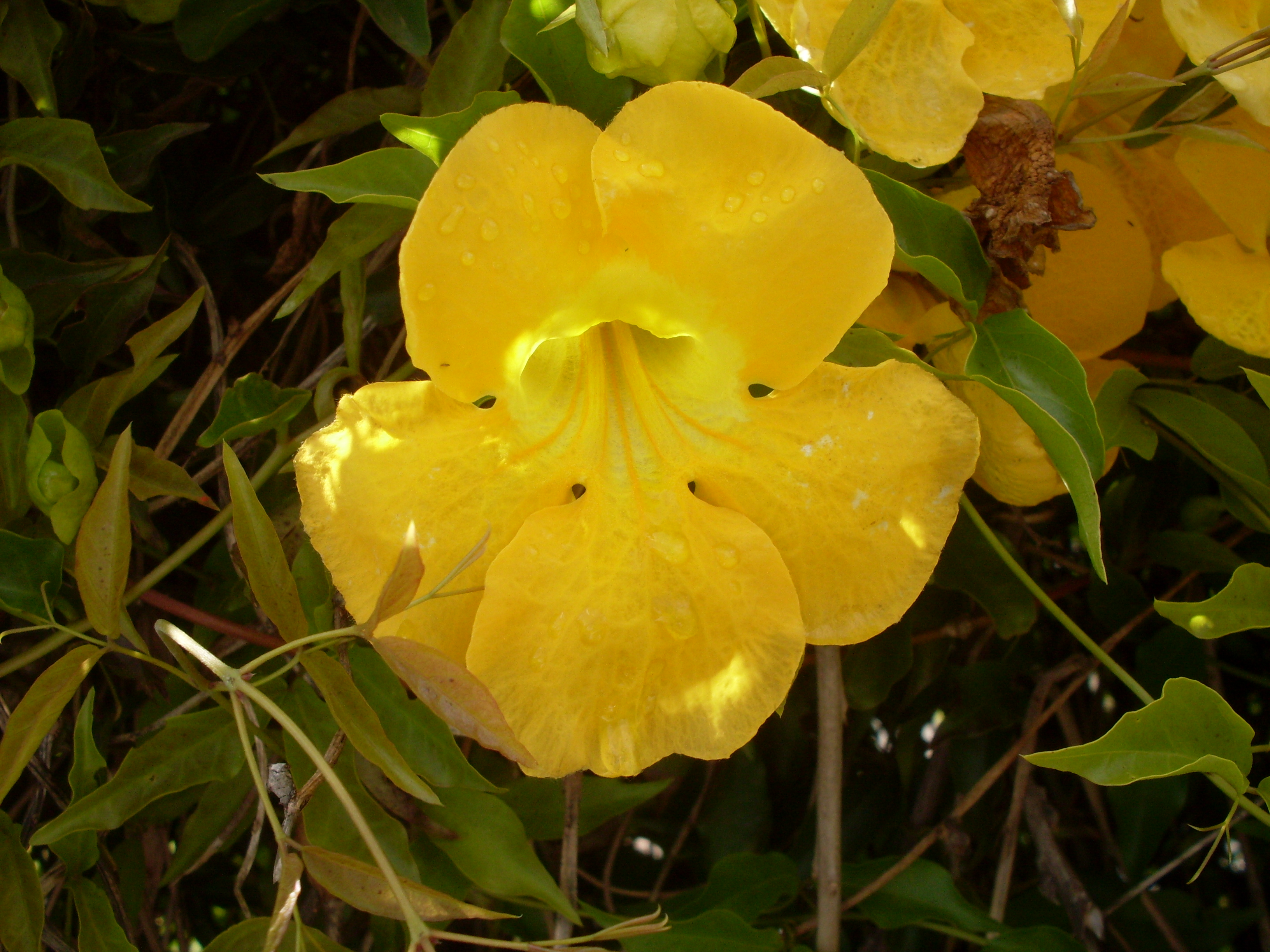 Cat's Claw Creeper (Macfadyena unguis-cati) is a noxious weed with a lovely yellow flower. Como NSW Australia, October 2009.